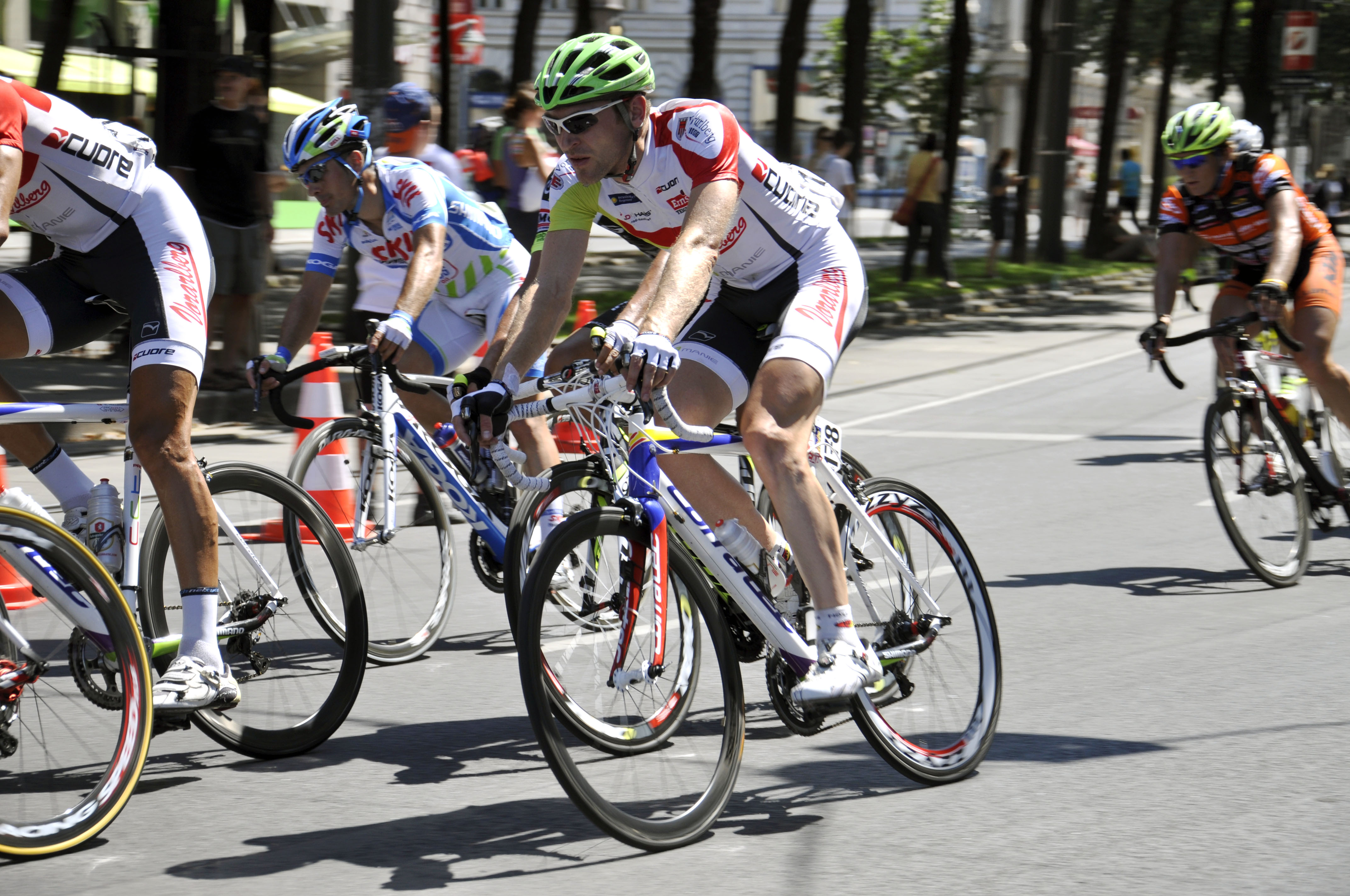 René Weissinger (Germany) riding for Team Vorarlberg during the 8th stage of the 2011 Tour of Austria in Vienna